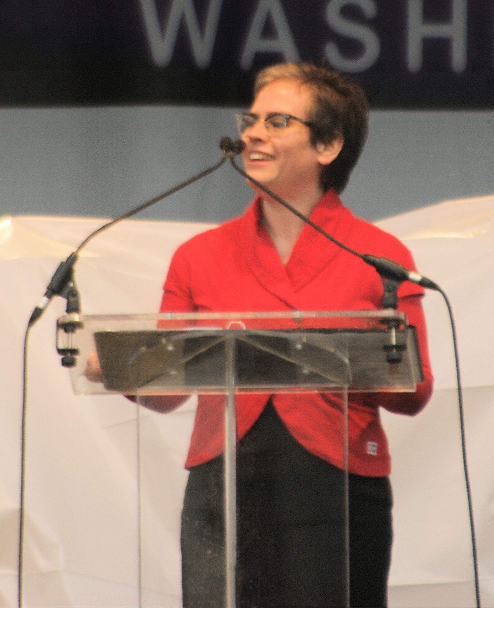 Greta Christina speaking at The Reason Rally on the National Mall, Washington, DC - March 24,2012